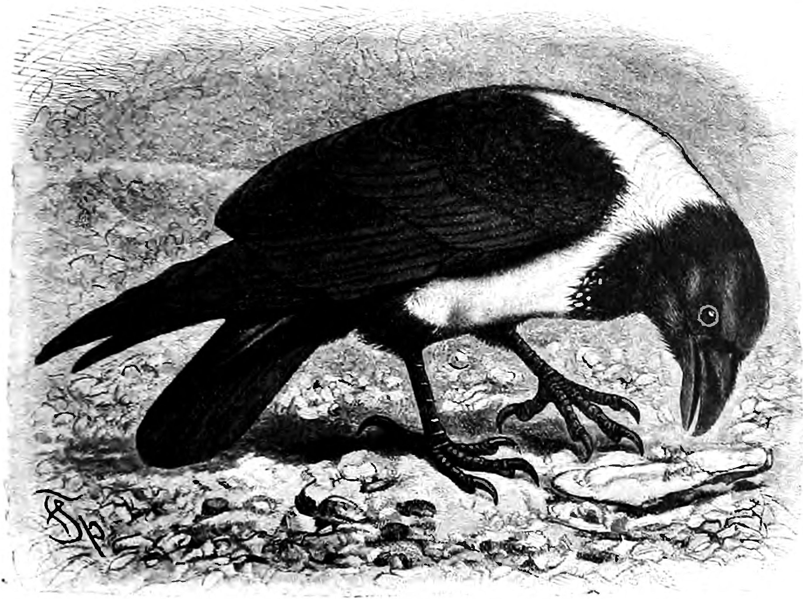 Corvus scapulatus (now named Corvus albus). Illustration by Friedrich Specht from Brehms Tierleben (English title: Brehm's Life of Animals).